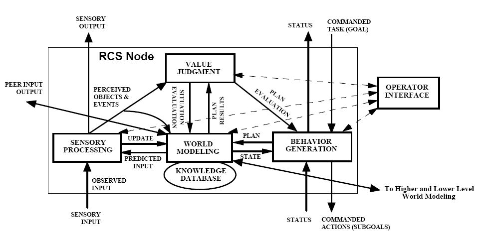 Internal structure of a RCS_NODE. The functional elements within a RCS_NODE are behavior generation, sensory processing, world modeling, and value judgment. These are supported by a knowledge database, and a communication system that interconnects the functional processes and the knowledge database. Each functional element in the node may have an operator interface. The connections to the Operator Interface enable a human operator to input commands, to override or modify system behavior, to perform various types of teleoperation, to switch control modes (e.g., automatic, teleoperation, single step, pause), and to observe the values of state variables, images, maps, and entity attributes. The Operator Interface can also be used for programming, debugging, and maintenance..